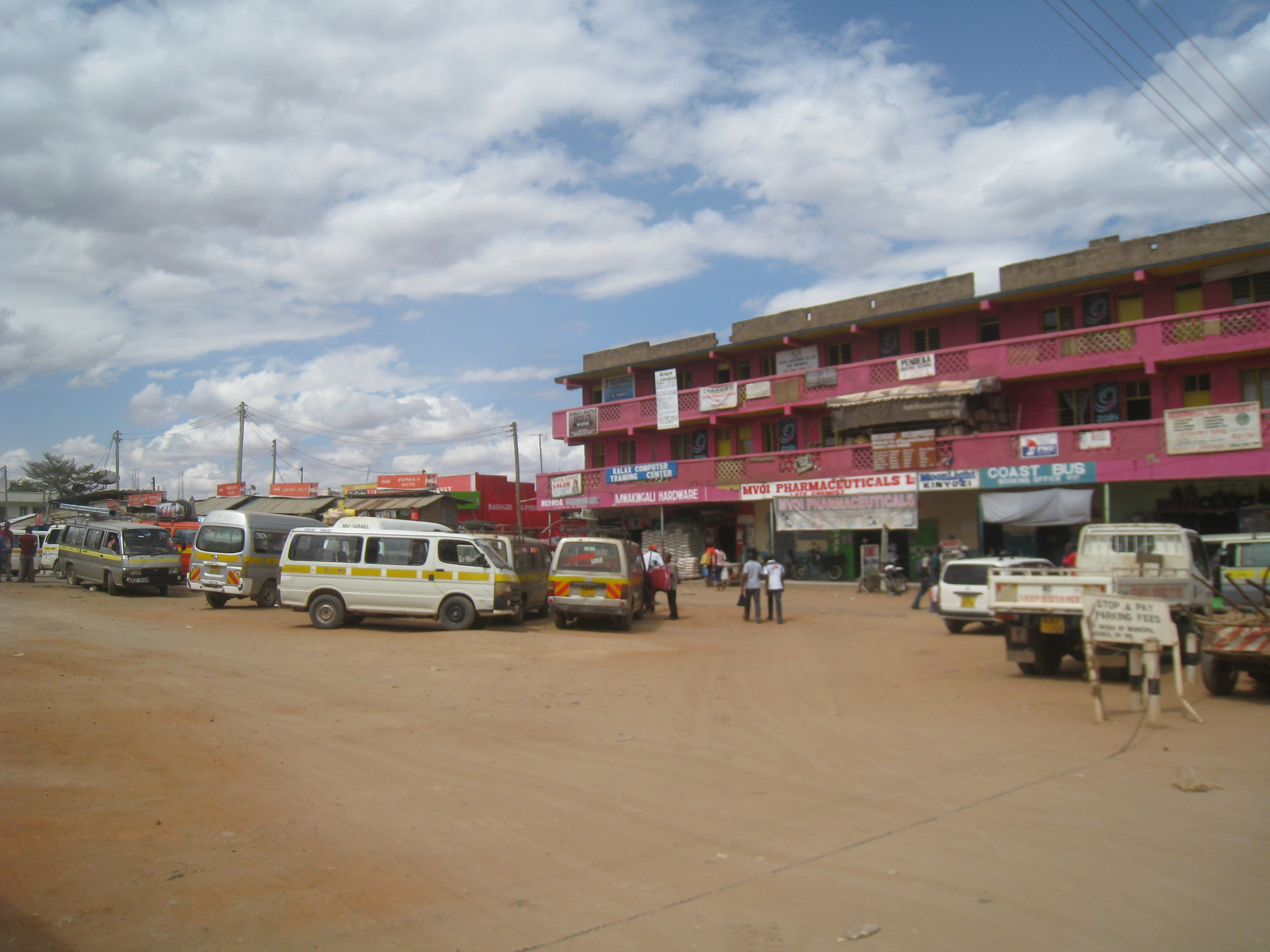 Town of Voi at the Matatsu bus stop.